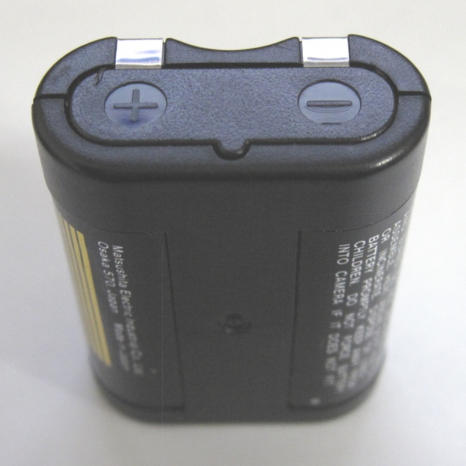 Battery Type 2CR5 (identical to DL245)